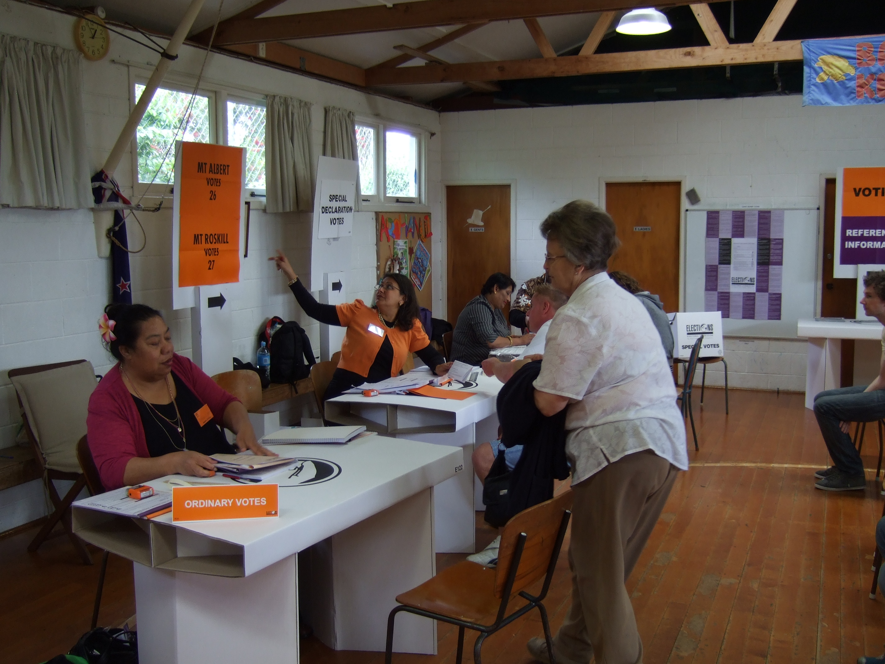 Polling place in 2011 New Zealand General election